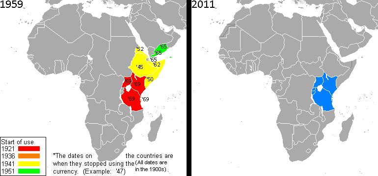 A map of the users of the new East Africa Shilling and the old East Africa Shilling